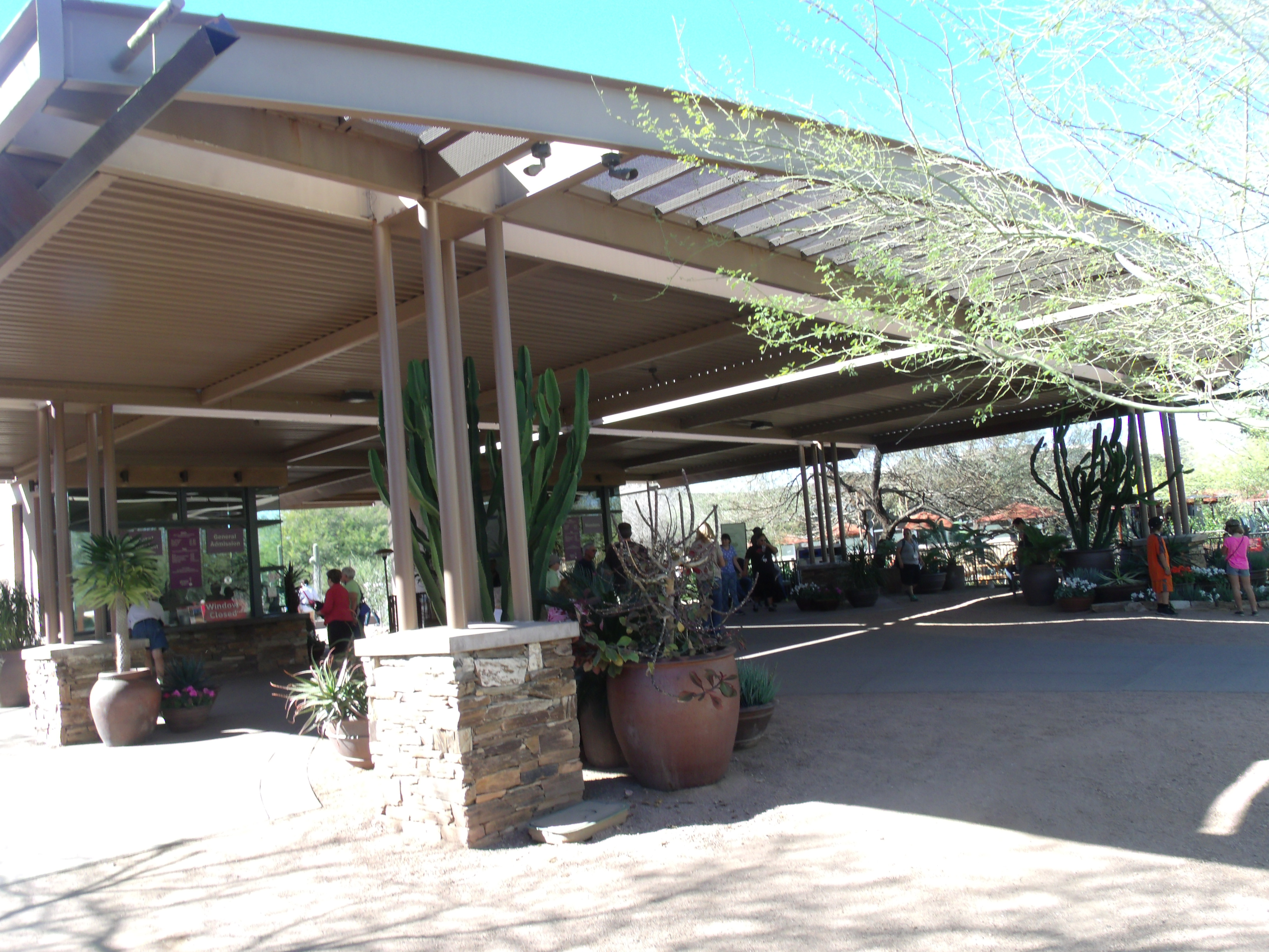 The main entrance of the Desert Botanical Garden. The Desert Botanical Garden is a 140 acres (57 ha) botanical garden located at 1201 N. Galvin Parkway in Phoenix, Arizona..It was founded by the Arizona Cactus and Native Flora Society in 1937.